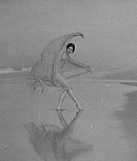 Title Scarf dance (Margaret Severn) Contributor Names Genthe, Arnold, 1869-1942, photographer Created / Published between 1923 and 1942; from a negative taken in 1923. Subject Headings - Dancers. Format Headings Lantern slides. Notes - Title from a similar image in: As I remember / Arnold Genthe. New York : Reynal & Hitchcock, 1936, facing p. 176. - Purchase; Genthe Estate; 1942 or 1943. - ID: As I remember, facing p. 176 Medium 1 slide : lantern ; 4 x 5 in. or smaller. Call Number/Physical Location LC-G4085- 0078 [P&P]